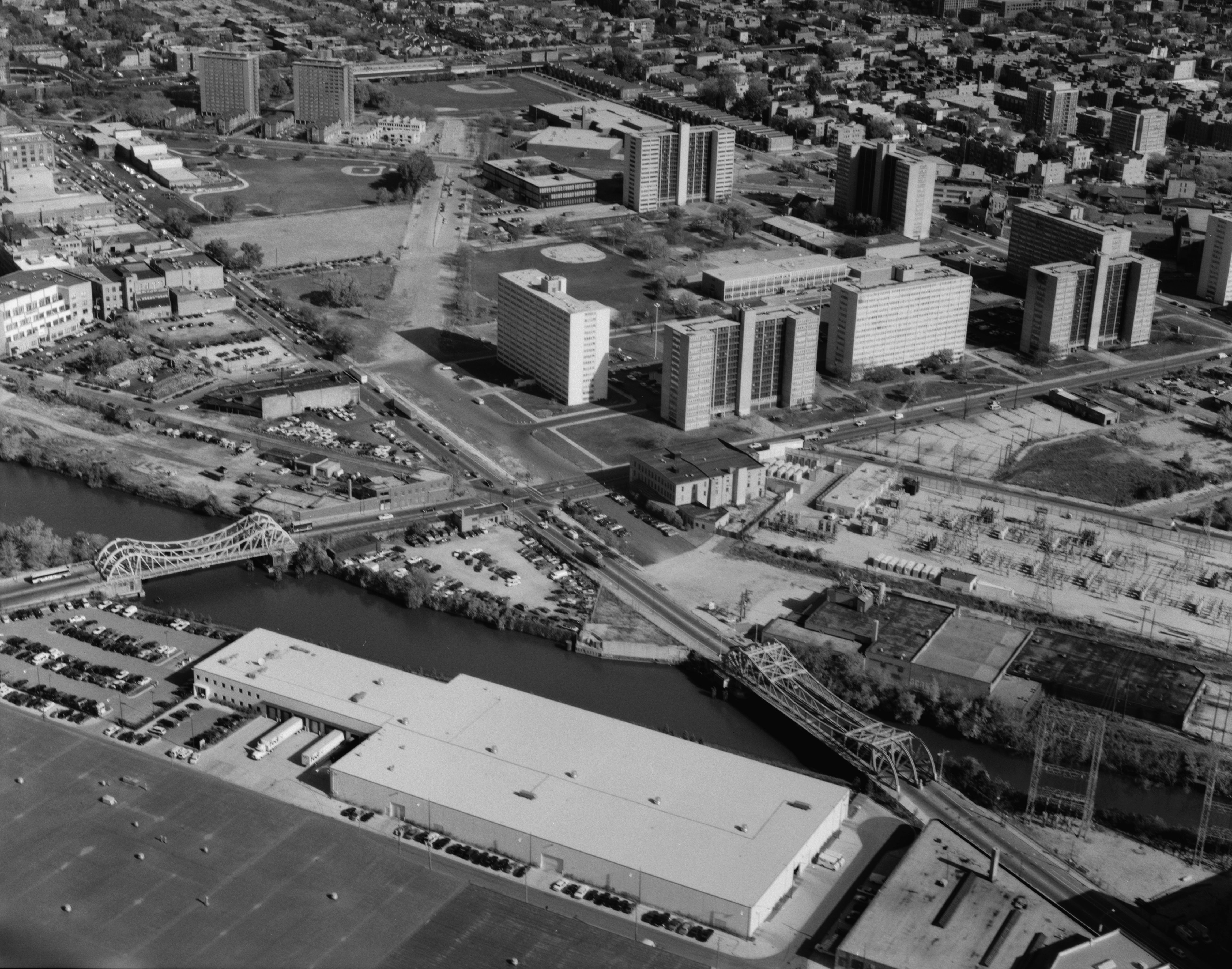 North Halsted Street Canal Bridge, Spanning North Branch Canal at North Halsted Street, Chicago, Cook County, IL. Looking north east toward Cabrini Green Housing Project. North Halsted Street at right, West Division Street at left; Goose Island at bottom of frame.